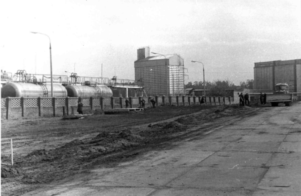 Pushkinskaya GRS. II stage